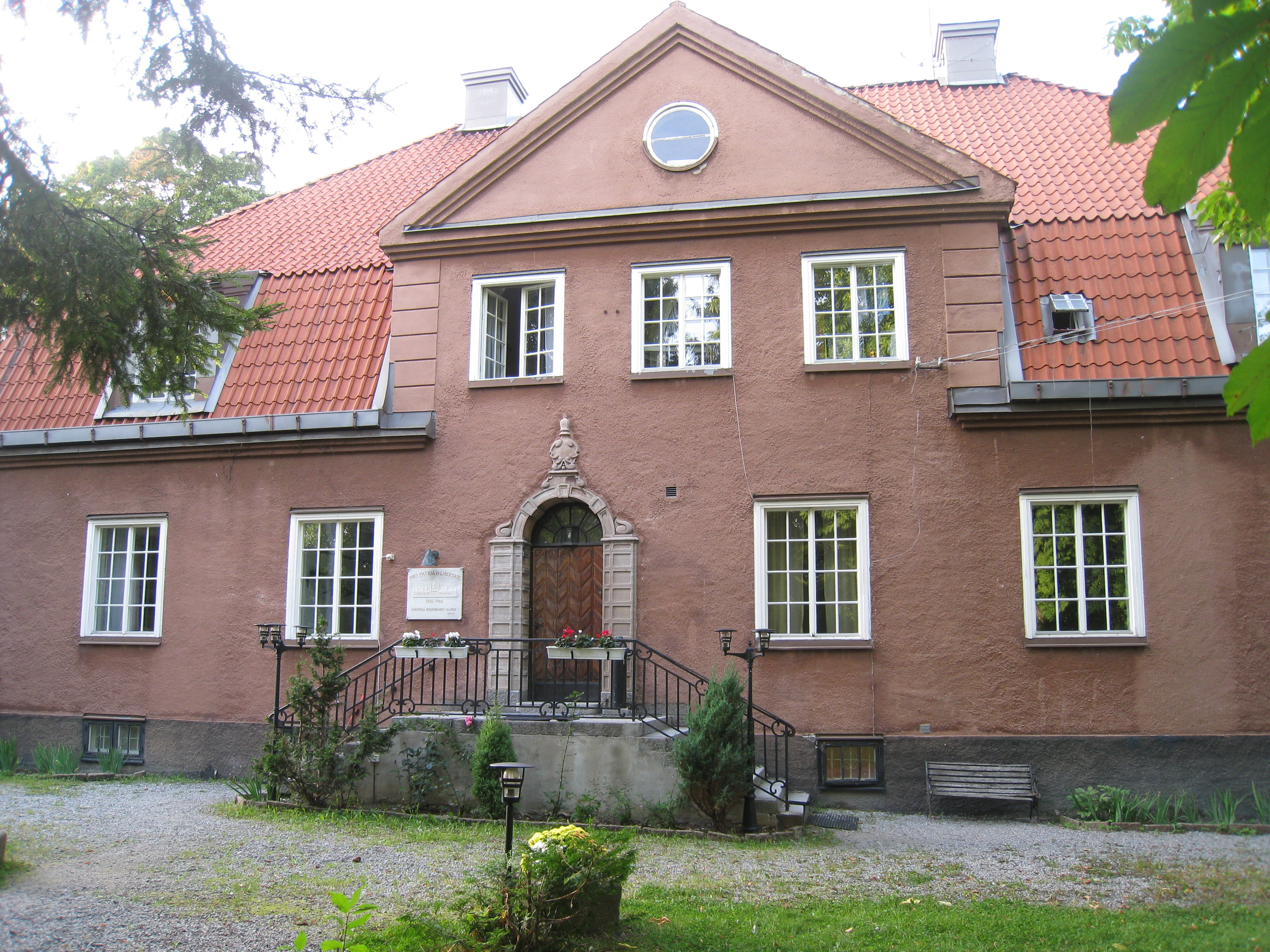 Ulvsunda rectory in Ulvsunda, Bromma, western Stockholm, was built in 1914 and used as a recidence for Bromma's priests during 1914-1971.